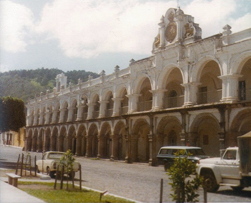 Government Palace, on main square, Antigua Guatemala. Photo by Infrogmation, 1979.